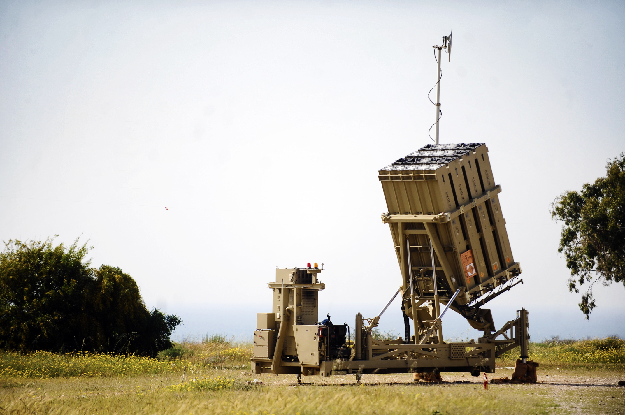 April 10, 2011 Pictured here is the Iron Dome battery in Ashkelon which intercepted approximately 8 rockets and Grad missiles launched from the Gaza Strip since its deployment on April 4th. Today the Chief of Staff, Lt. Gen.Benny Gantz along with the Prime Minister and Defense Ministers visited the battery and thanked the IDF soldiers who operate it. The Iron Dome system intercepts short-range missiles with a minimal range of 5 km and a maximum of 70 km.